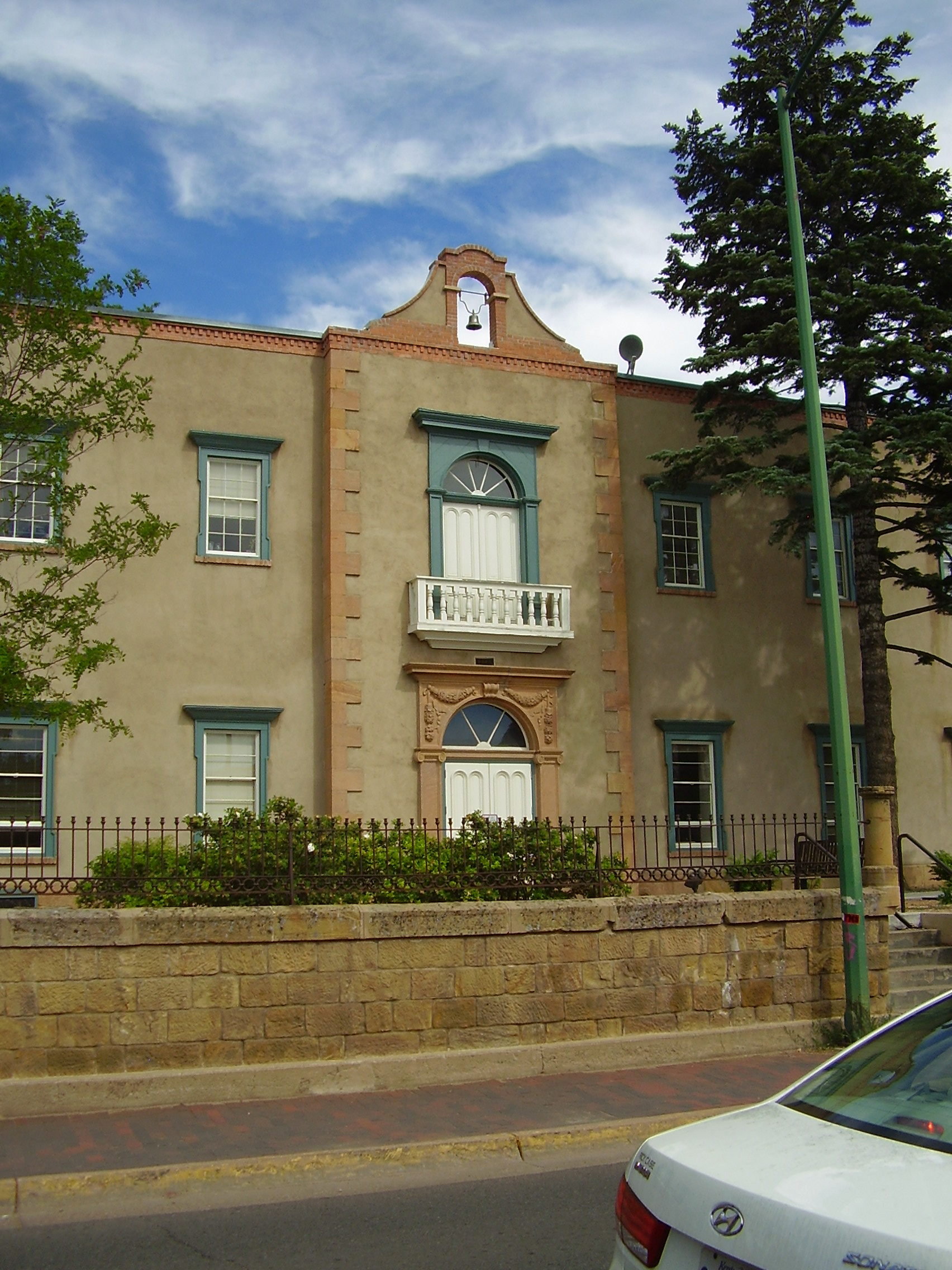 The Lamy Building, which has the New Mexico Tourism Department, Visitor Information Center, and Governor's Commission on Disability